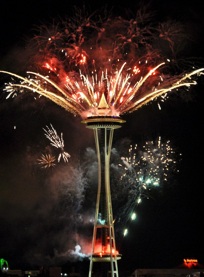 Fireworks at Space Needle (2011)